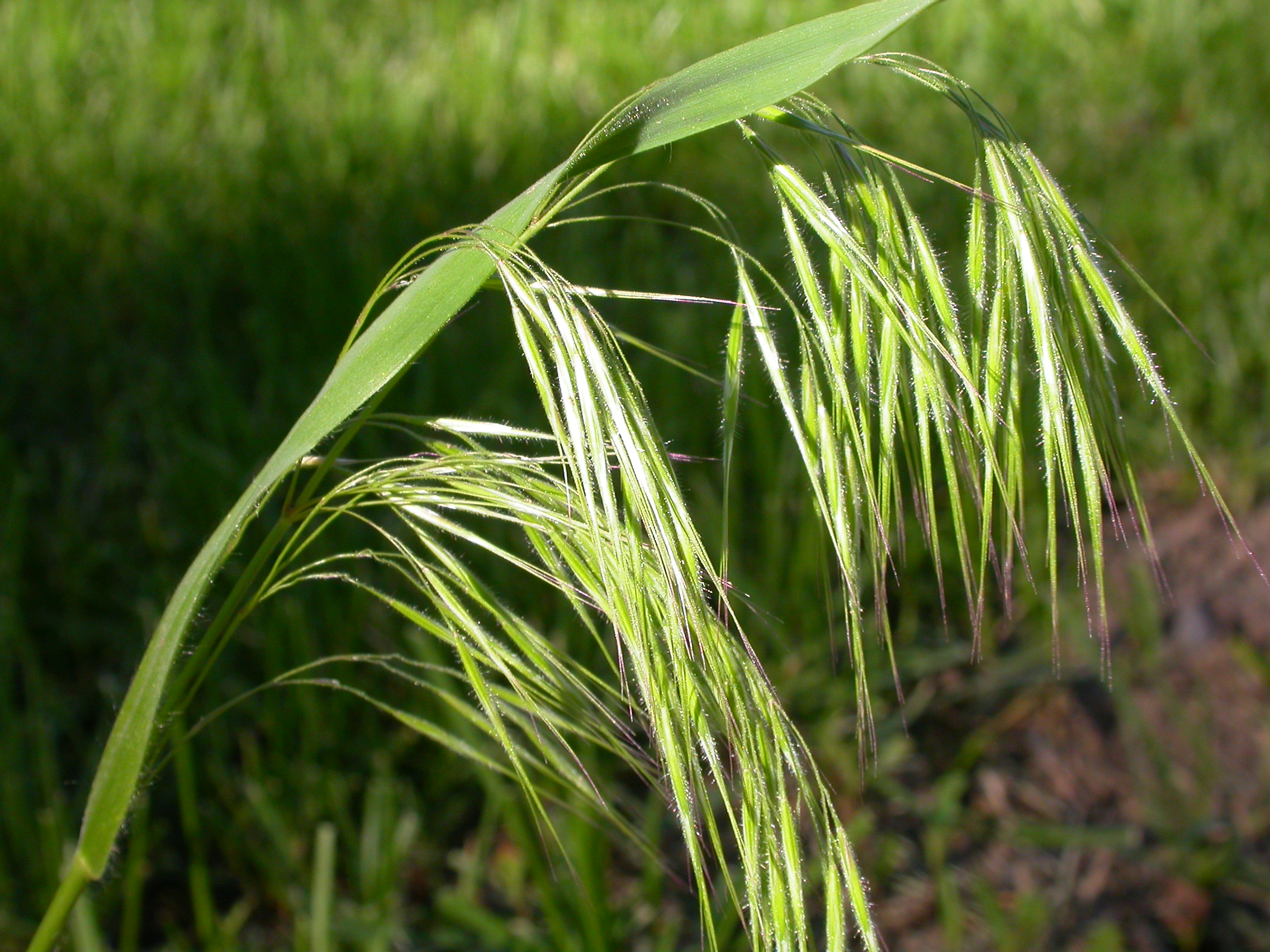 The spikelets comprise lemmas with long tips that taper nearly imperceptibly into the apical awn.